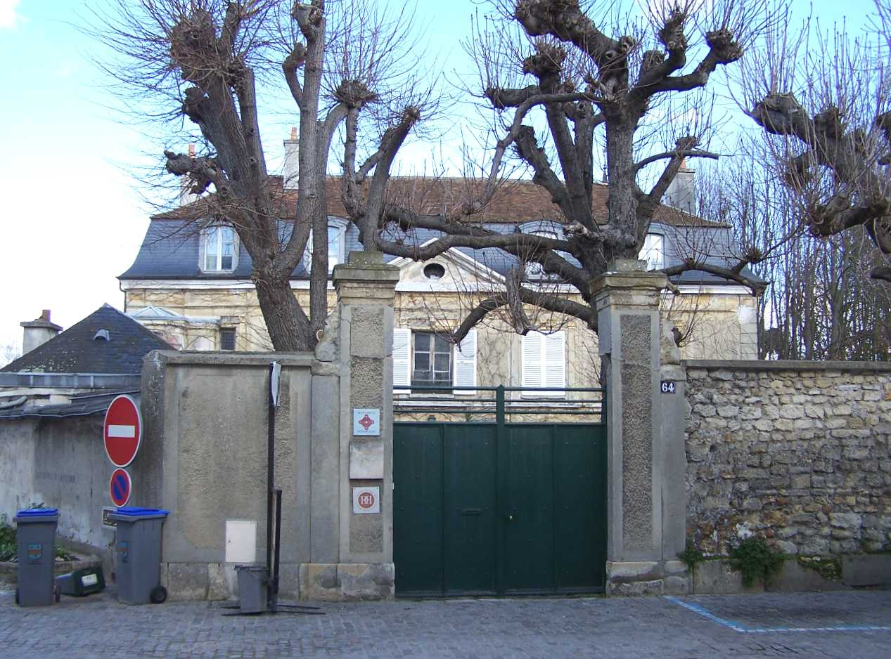 House of André Derain in Chambourcy (Yvelines, France)